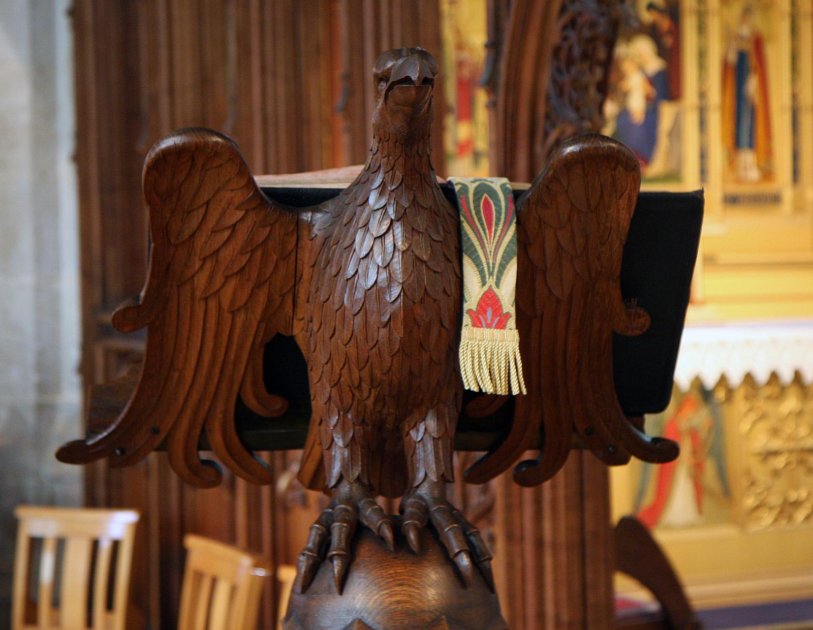 Eagle lectern at St Nicholas Church, Blakeney, Norfolk, England.